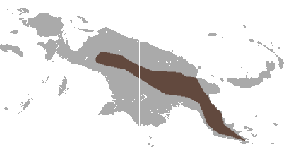 Silky Cuscus (Phalanger sericeus) range